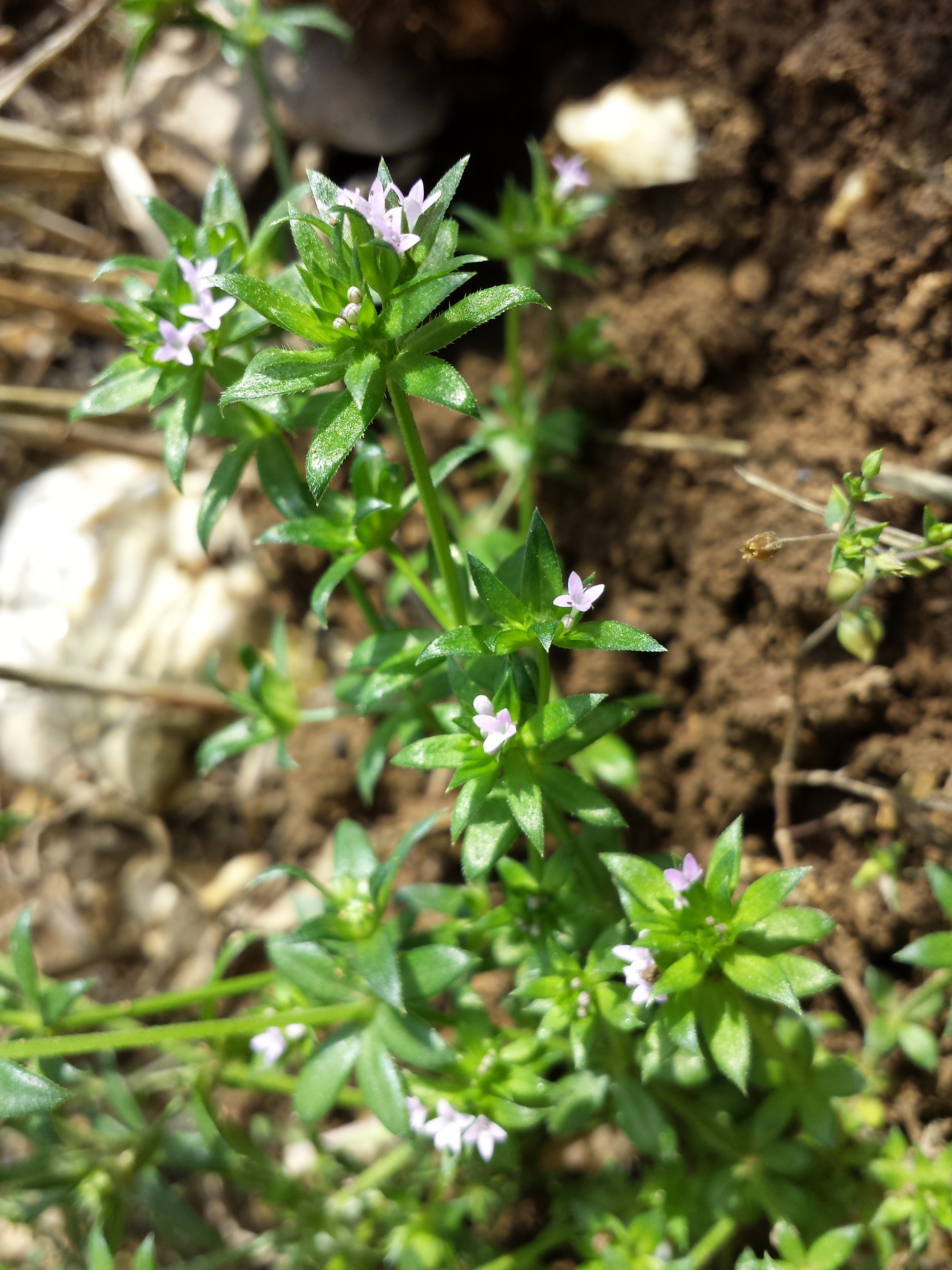 Habitus Taxon: Sherardia arvensis (sensu Fischer et al. EfÖLS 2008 ISBN 978-3-85474-187-9) Location: Steinbacher Heide, Leiser Berge, district Korneuburg, Lower Austria - ca. 450 m a.s.l. Habitat: rocky grainfield (limestone)